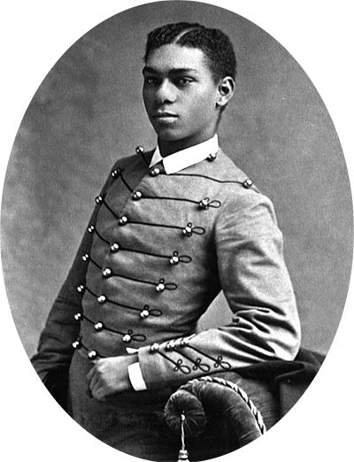 Photo of the first African American Graduate of West Point, Henry O. Flipper